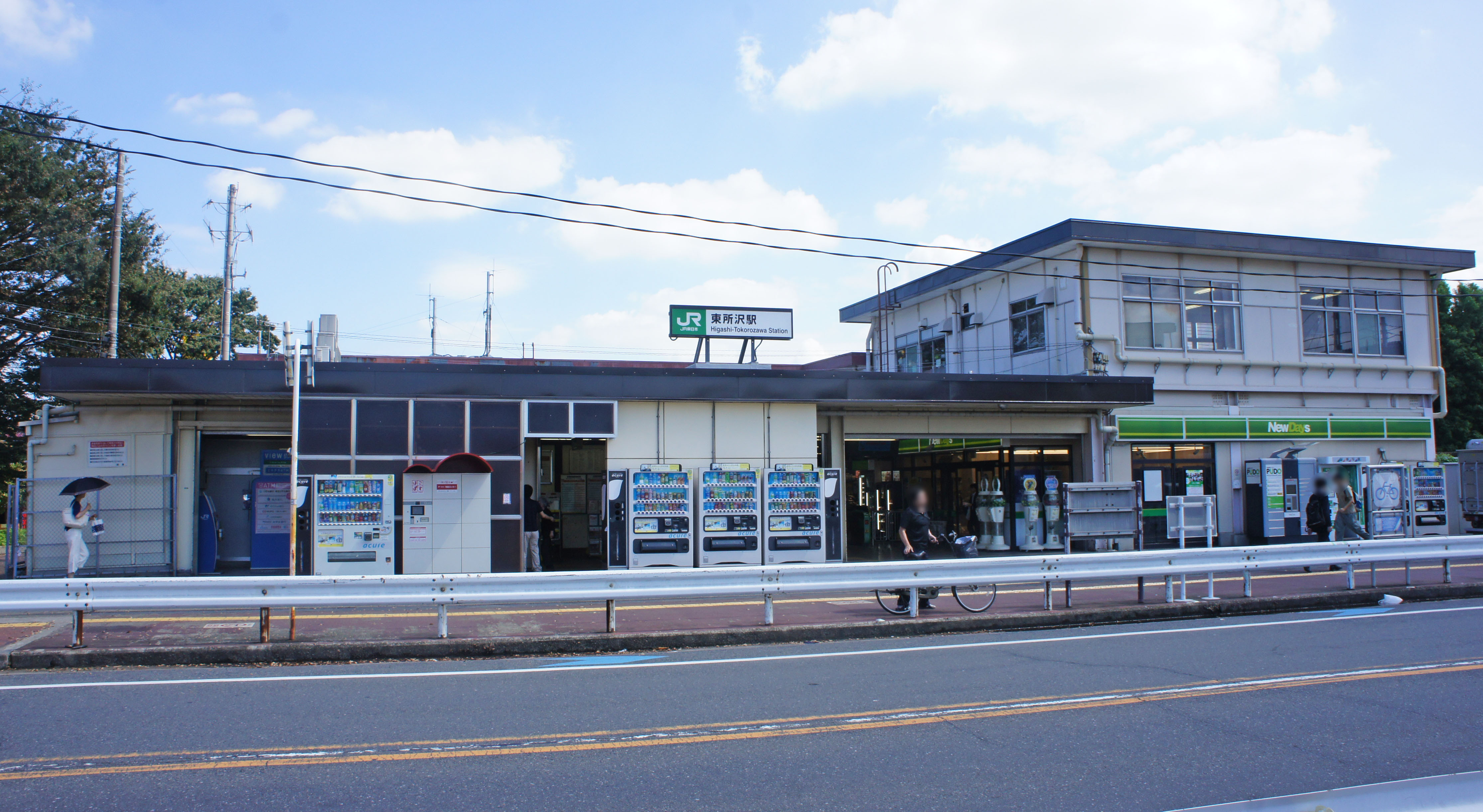 Station building of JR Musashino-Line Higashi-Tokorozawa Station